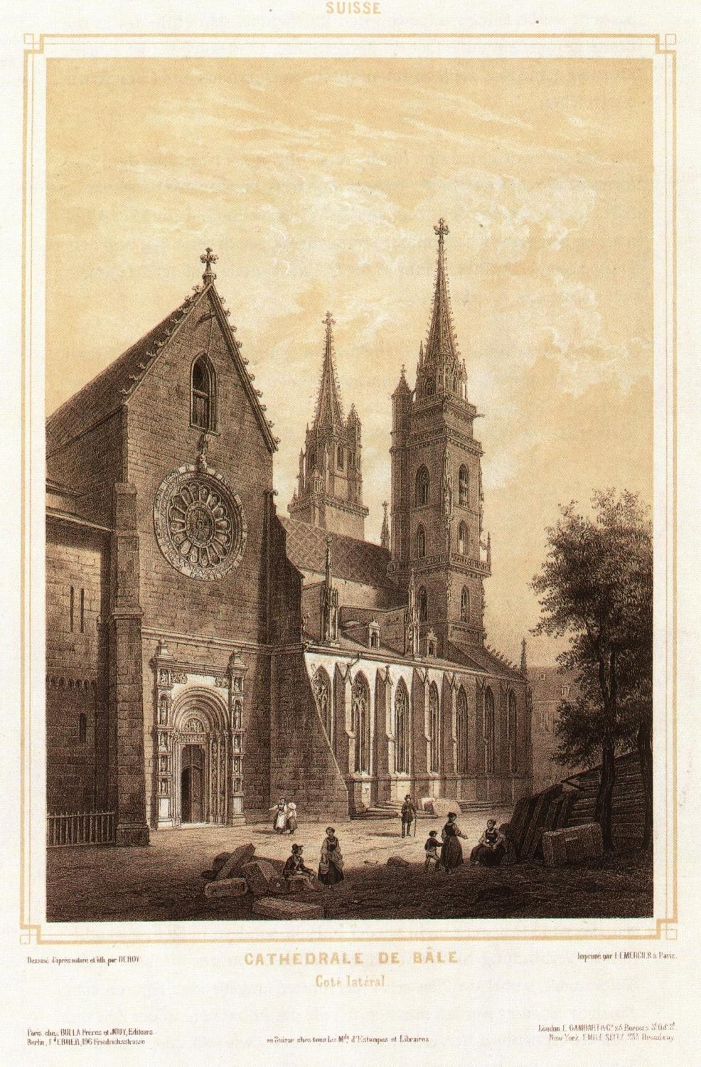 An old image of Basel cathedral